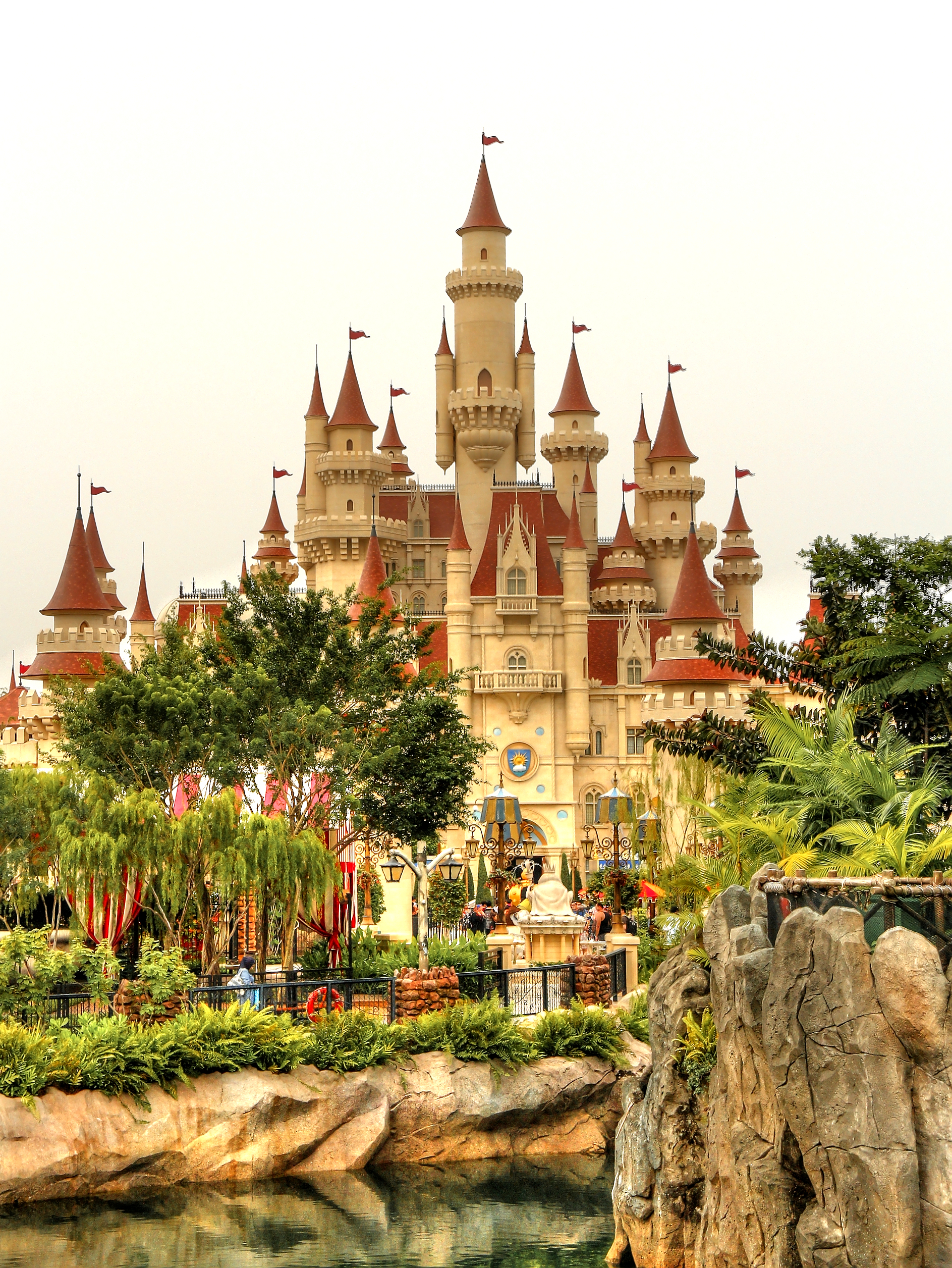 Far Far Away Castle, Universal Studios Singapore